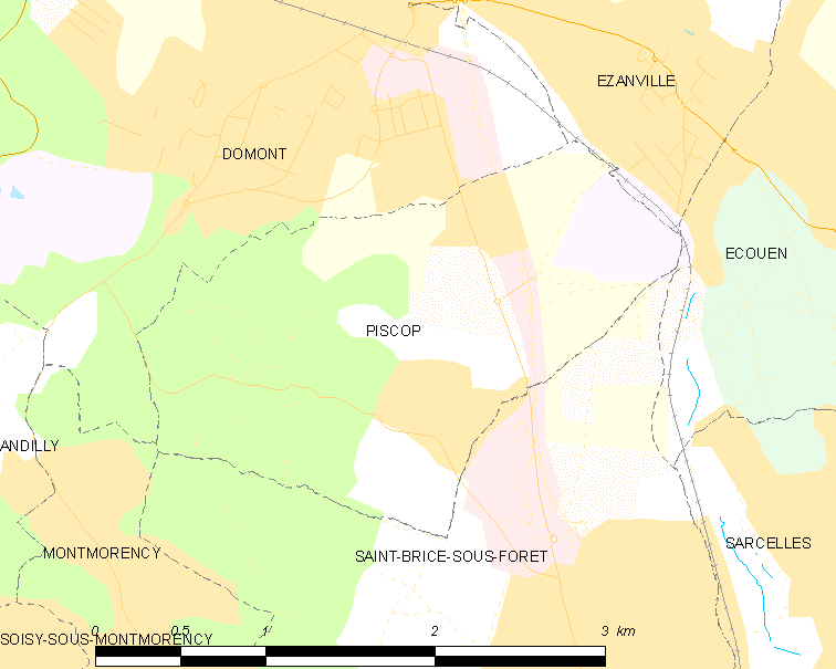 Map of French municipality Piscop